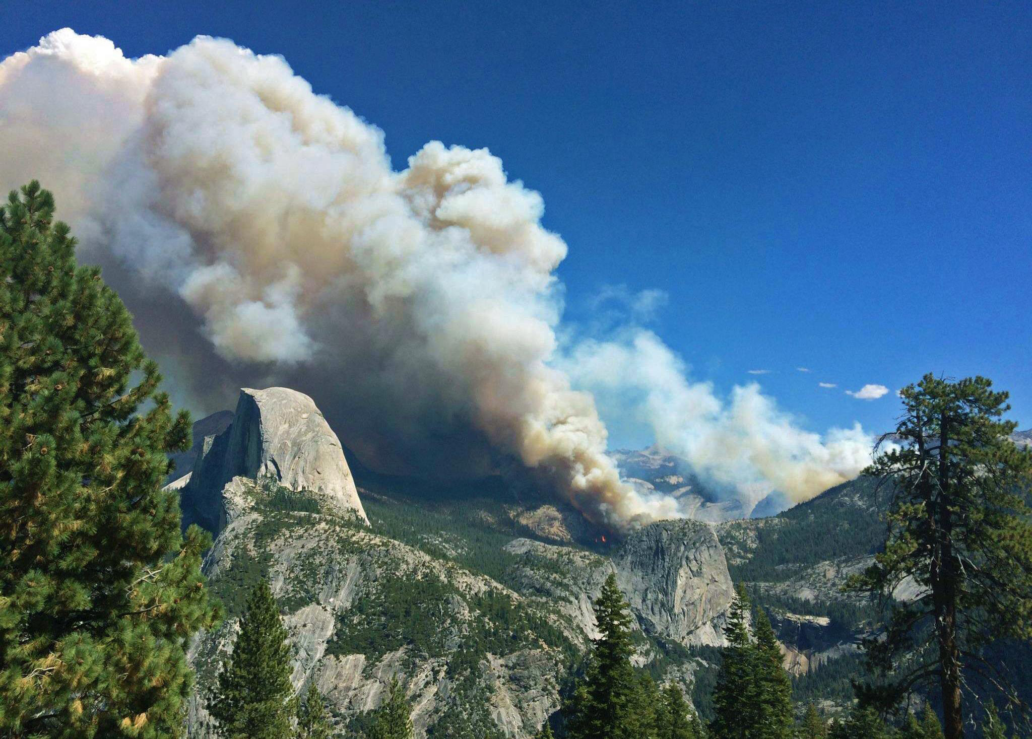 Lightning first ignited the Meadow fire on July 20. For several weeks, park officials let the small, high-altitude (8,000 feet or 2,440 meters) blaze burn in order to preserve the park’s natural fire patterns and because it posed no threat to public safety, according to The Los Angeles Times. Indeed, the fire had burned just 19 acres (8 hectares) over the first 49 days. Then winds surged on September 7 and the Meadow fire suddenly flared up. By September 8, the fire had charred 2,582 acres (1,044 hectares). Though it is large enough to provoke dramatic photographs from the ground, the fire is small compared to California’s largest fires. For comparison, the Happy Camp Complex fire in northern California has burned more than 99,000 acres and was only partly contained as of the same date. Photo was taken by Yosemite National Park staff on September 7, 2014. Half Dome is on the left, with a smoke plume rising from Little Yosemite Valley to its right.